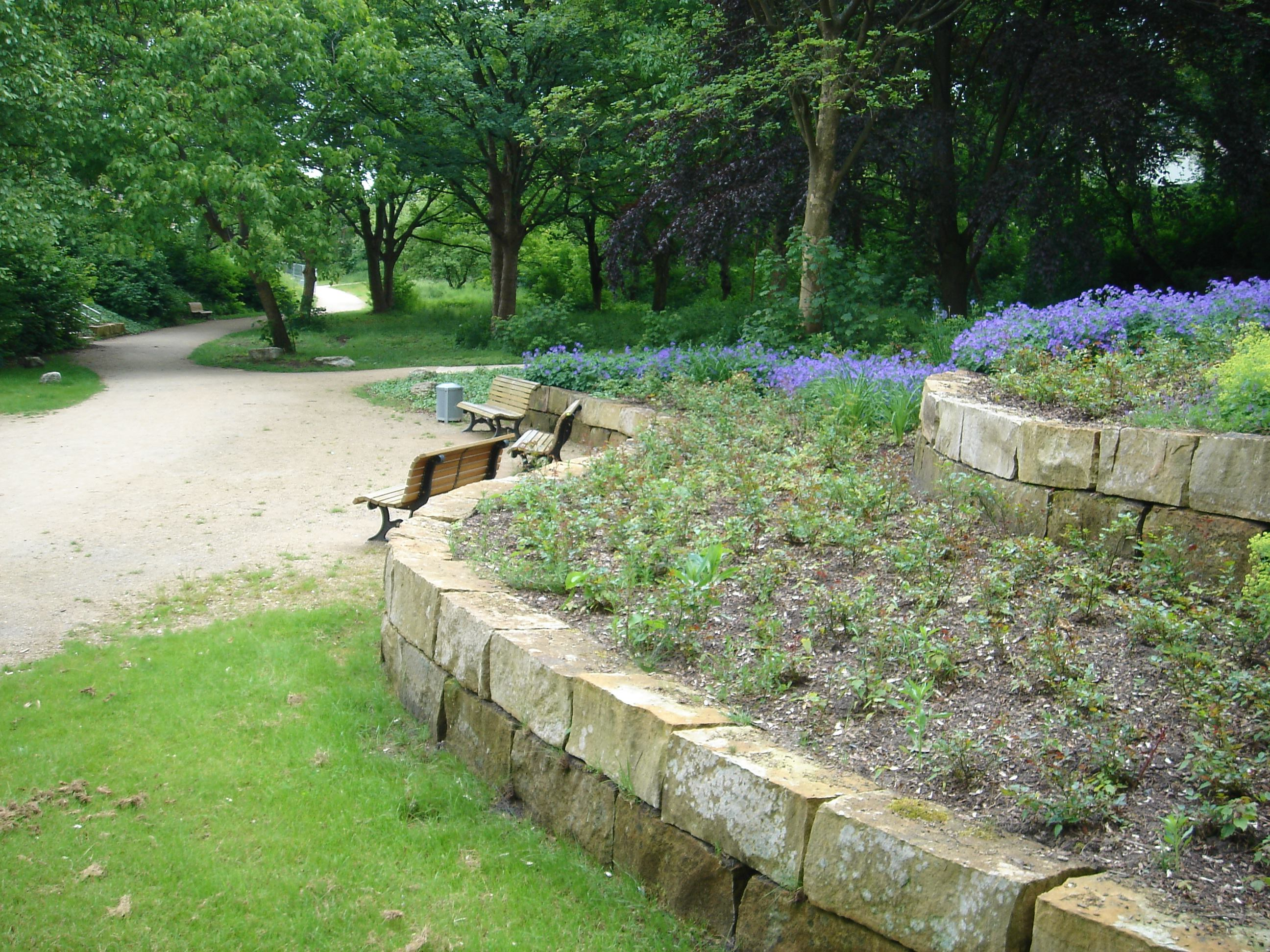 Willy-Spahn-Park